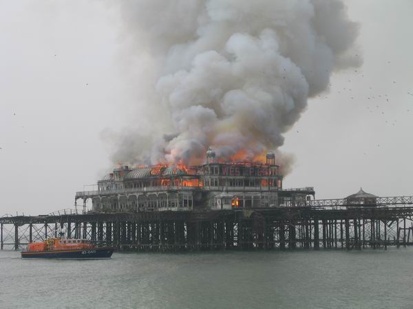 West Pier on fire, March 28, 2003, Brighton, UK.